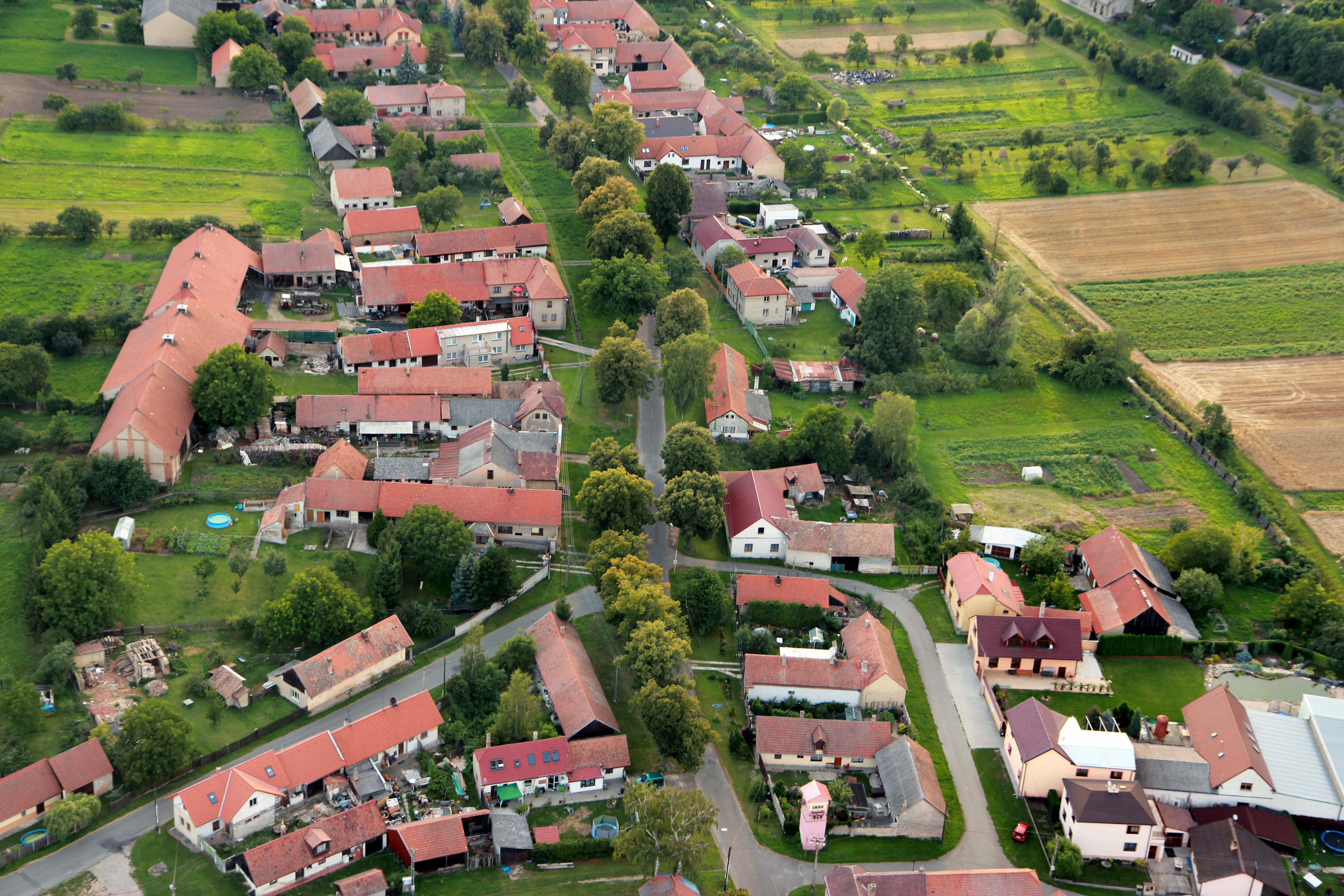 East part of Oskořínek village, Czech Republic